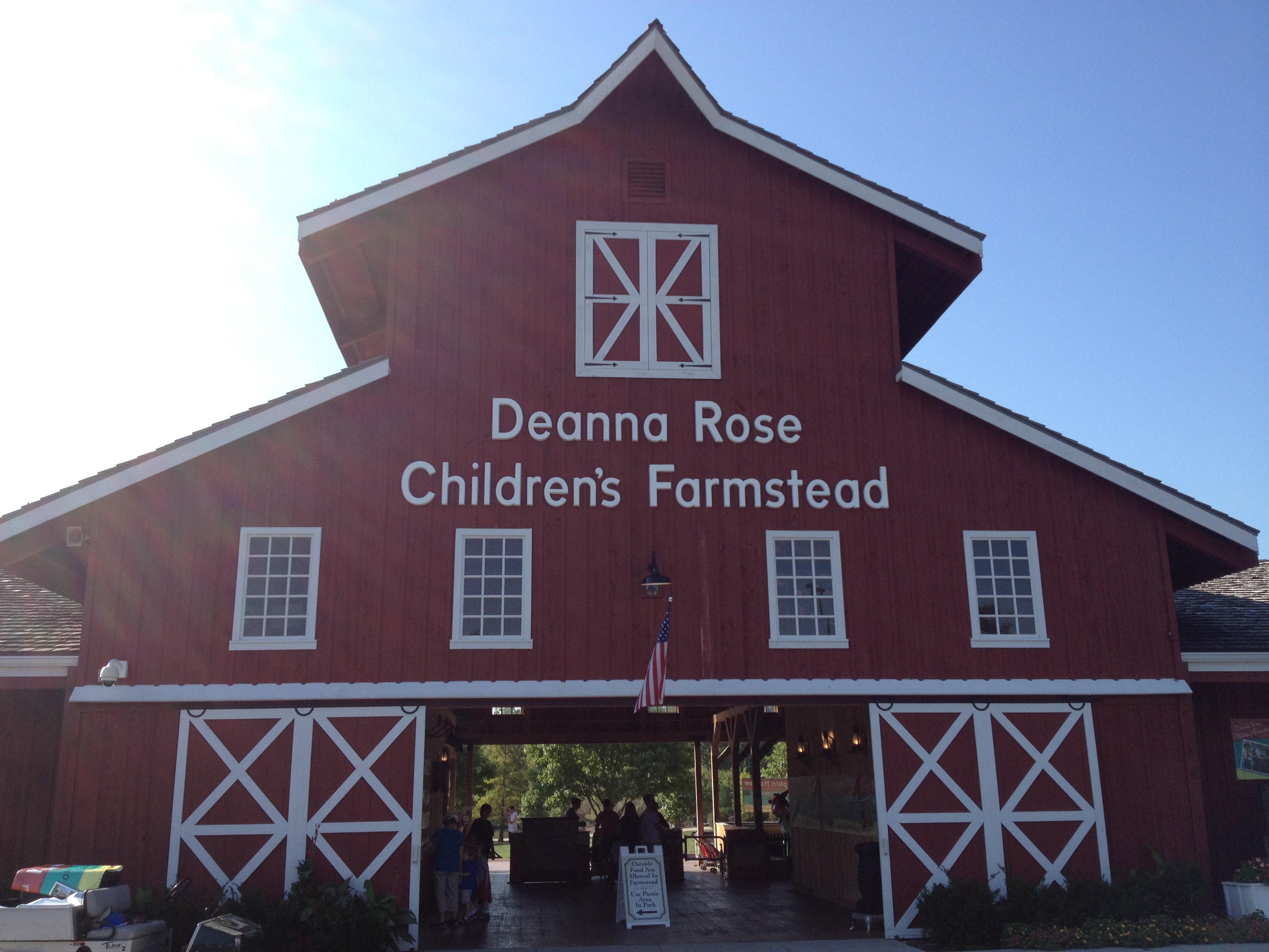 Entrance to Deanna Rose Children's Farmstead in Overland Park, Kansas. Photo taken September 3, 2012.